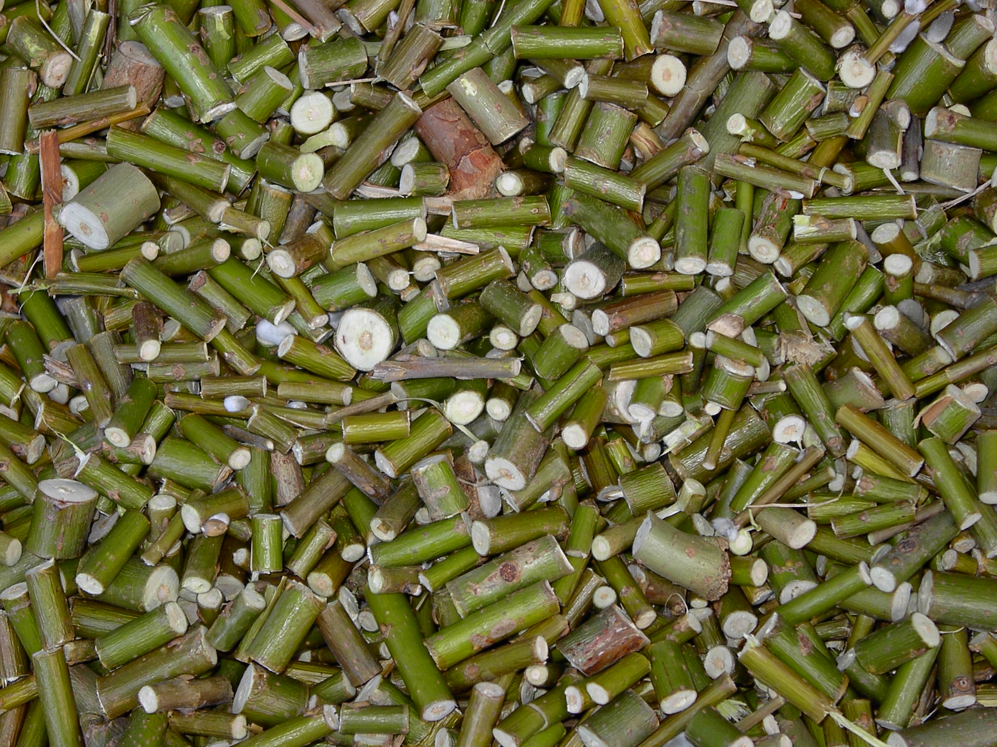 energetic willow